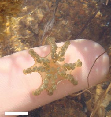 Oral view of K. corbinion the forefinger of the researcher. Scale: 5 mm